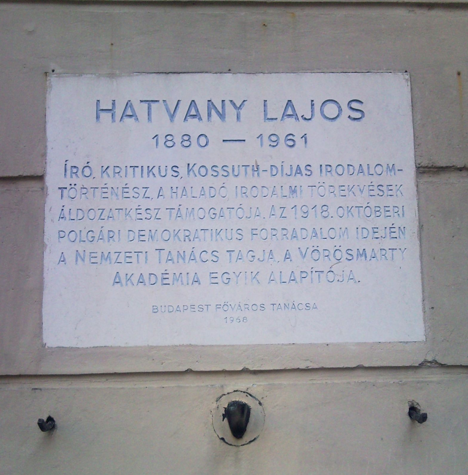 Lajos Hatvany commemorative plaque in Budapest District I, Országház Street No 19 (Kard Street side)